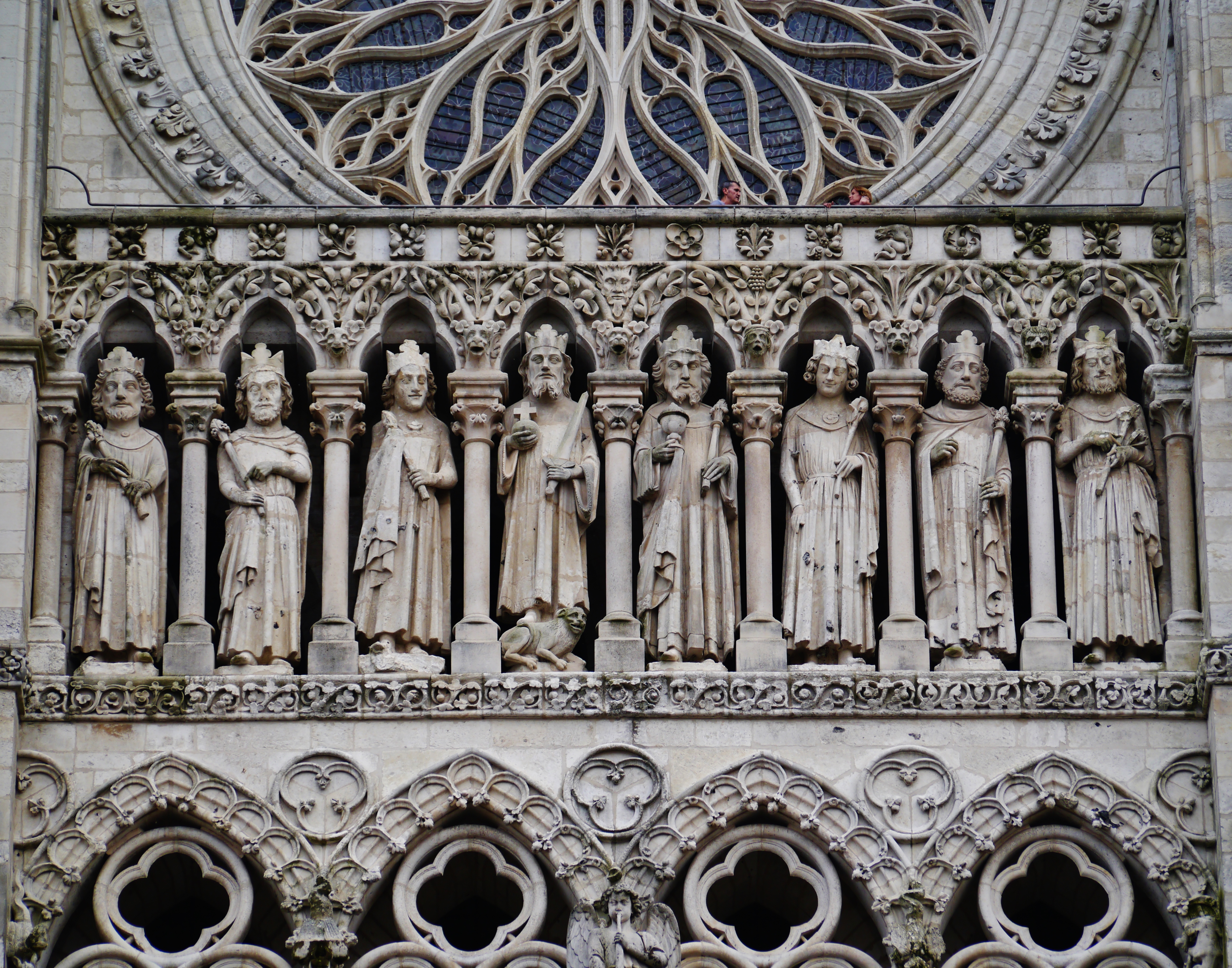 Gallery of the Kings at the West Facade of the Cathedral of Our Lady, Amiens, Department of Somme, Region of Upper France (former Picardy), France